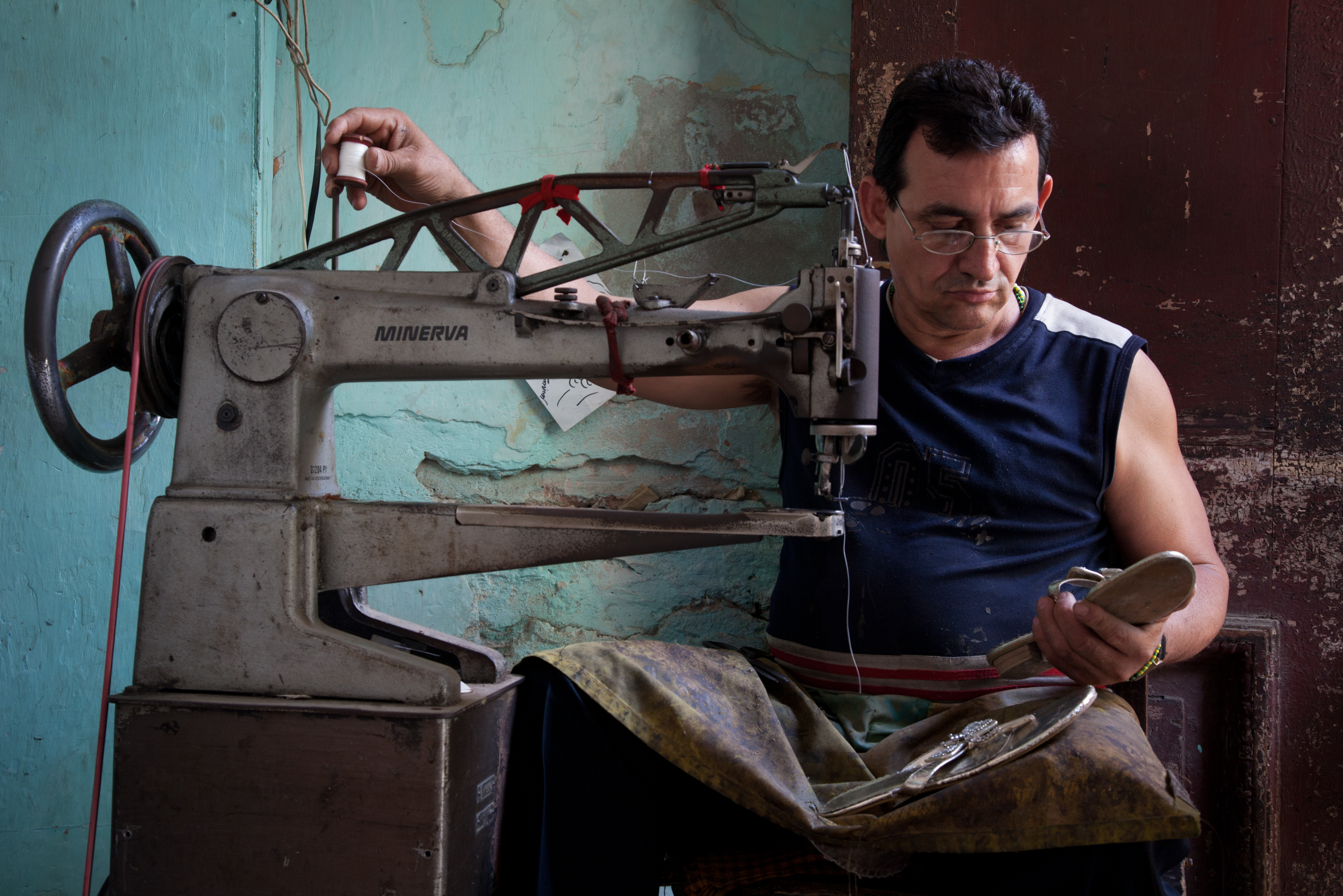 Lazaro Sambrana, shoe, slipper and sneaker repairs. Havana (La Habana), Cuba